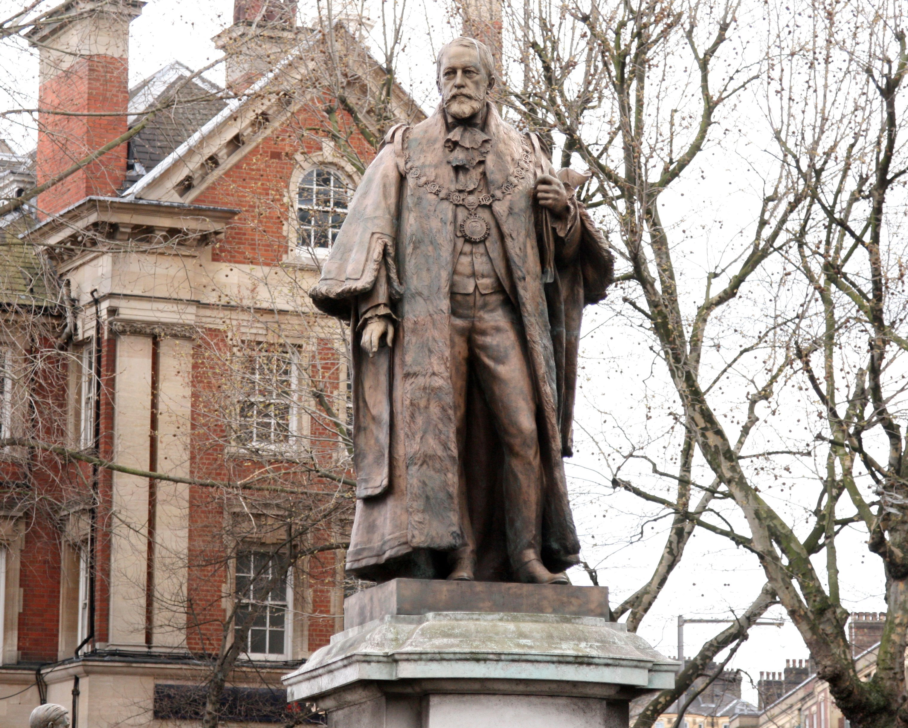 Statue of Samuel Bourne Bevington